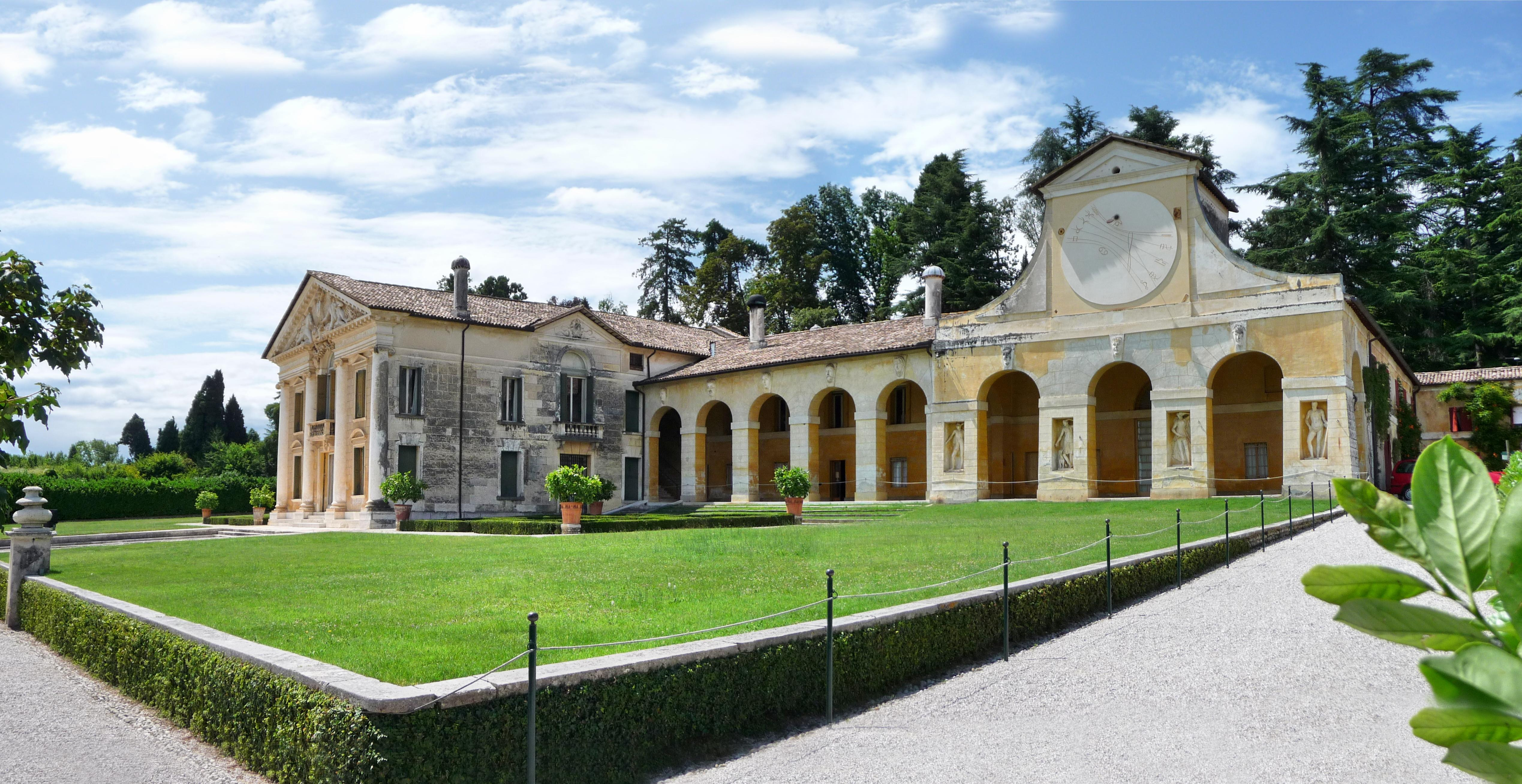 Villa Barbaro in Maser, province of Treviso, Italy, built by Andrea Palladio between 1554 and 1560 for the brothers Daniele and Marcantonio Barbaro.